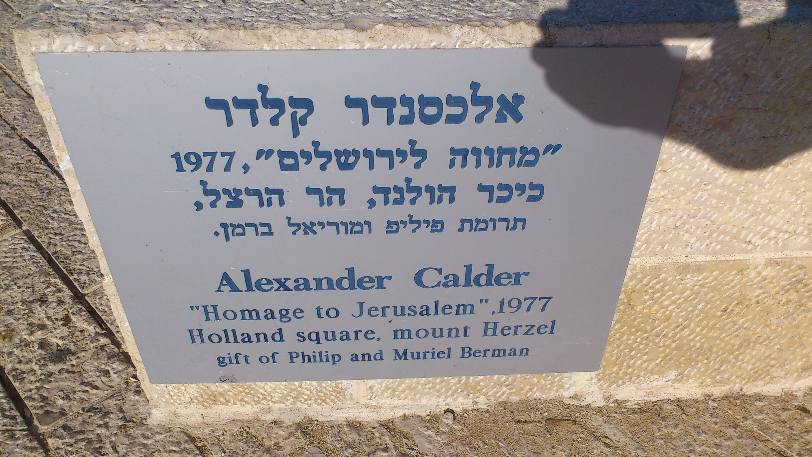 Category:Mount Herzl